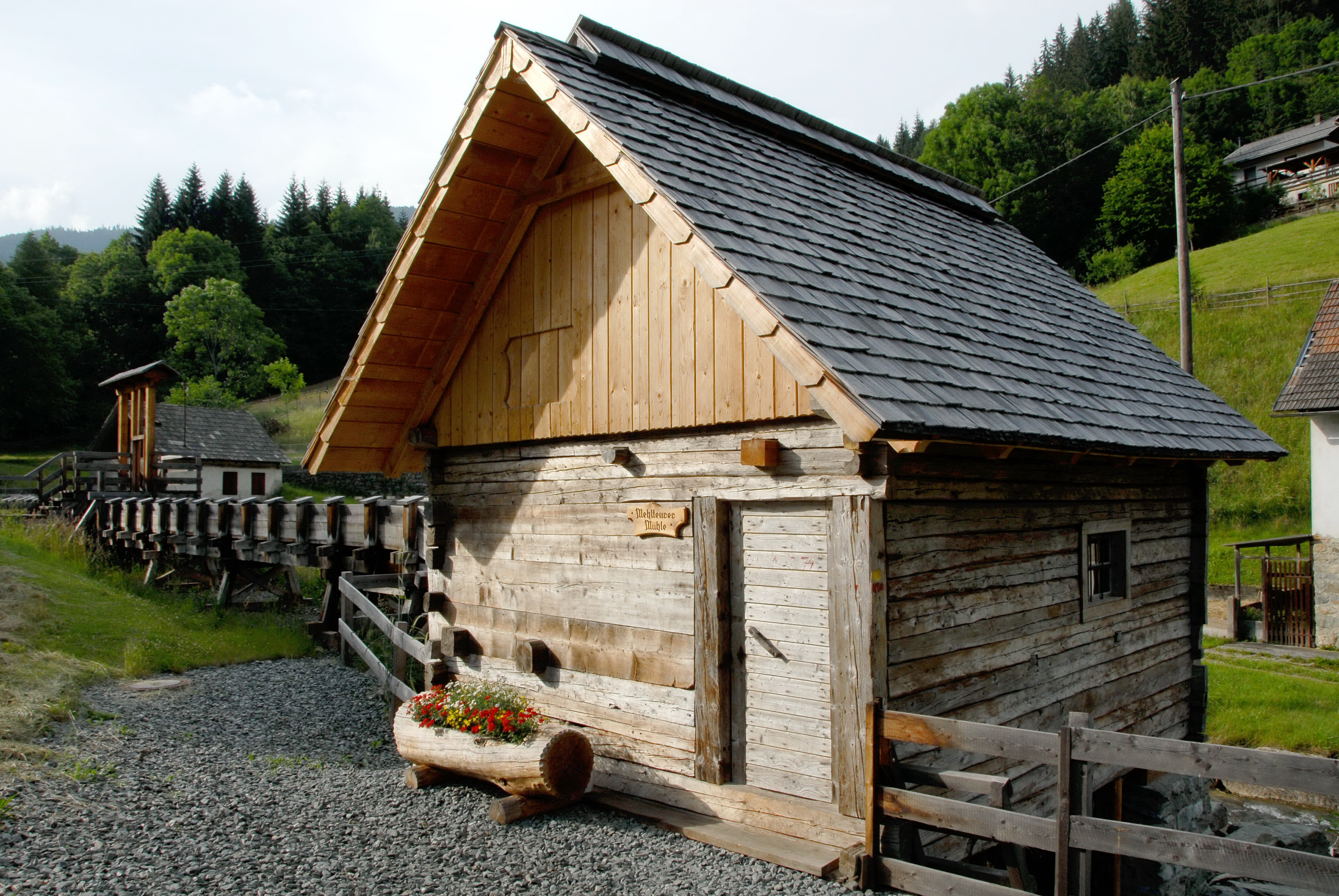 Mehlteurer mill at the Tiebel-wellsprings at Tiebel, municipality Himmelberg, district Feldkirchen, Carinthia, Austria